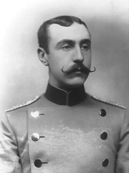 Prince Aribert of Anhalt (1864-1933), Husband of Princess Marie Louise of Schleswig-Holstein.